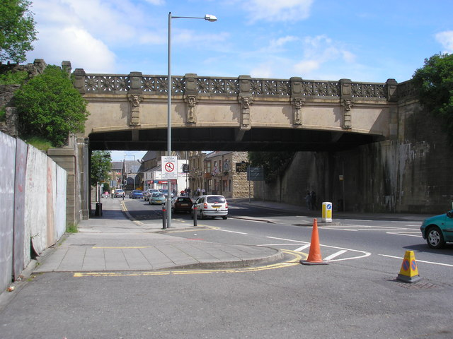 Yorkshire Street, Burnley, Lancashire Looking eastwards along Yorkshire Street we see it dominated by the aqueduct carrying the Leeds and Liverpool Canal. This structure dates, not from the original opening of the waterway, but from 1927. Even by the 1890s, the original aqueduct which was slightly further to the east, was found to be unduly constricting to traffic along the street, so side arches were bored in that year to take the pedestrian traffic: this, however, was not a sufficient solution, as all the room on the road was taken up by the double track of tramway that was then in situ. So in 1927 this entirely new structure was put in place and the old aqueduct demolished. Beyond the aqueduct can be seen the Princess Royal pub, and beyond that is St. Mary's Roman Catholic church.